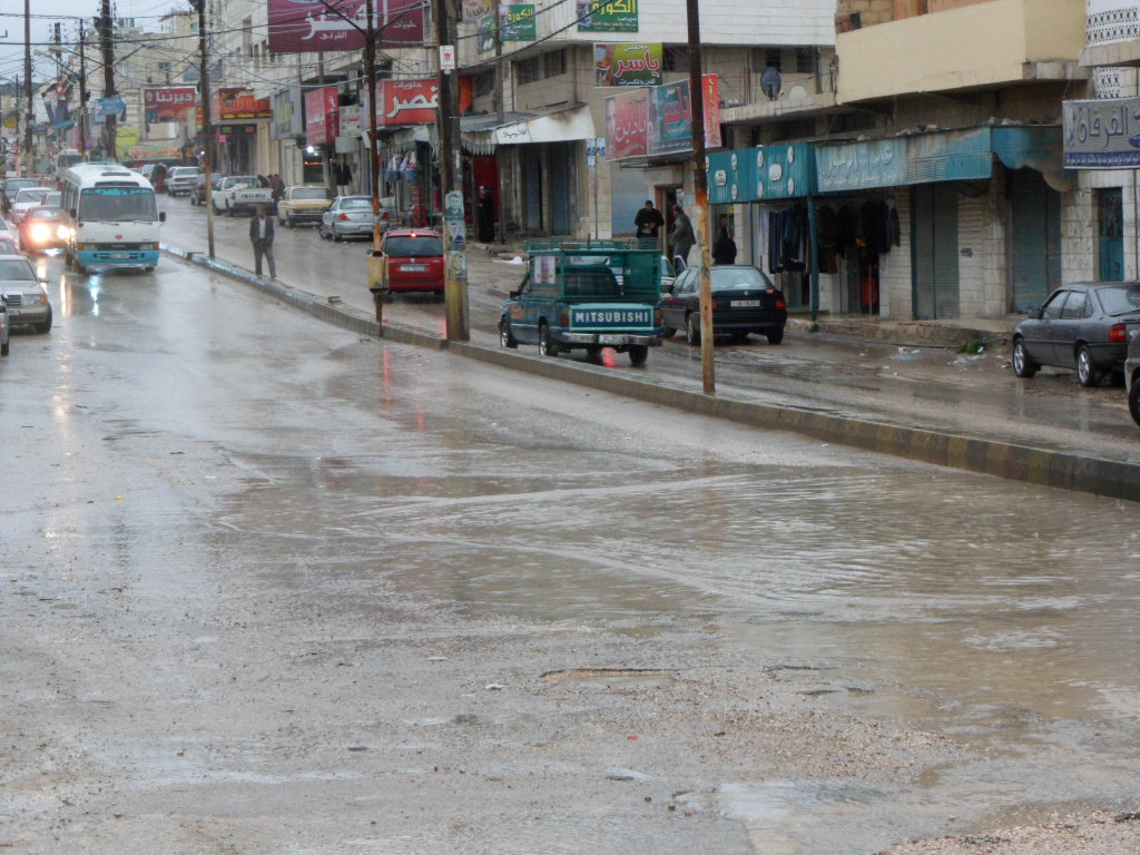 مدينة دير ابي سعيد